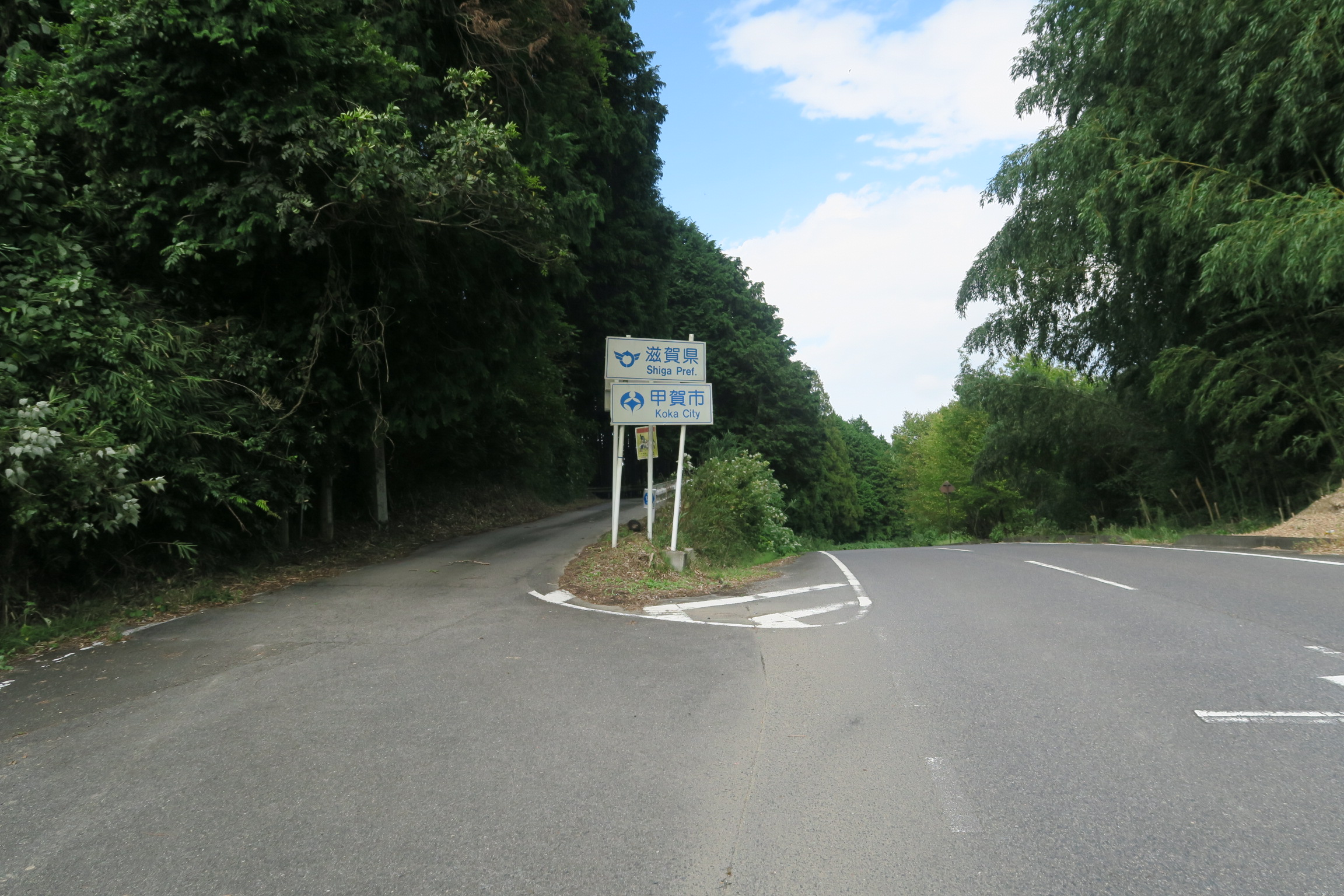 Uchiho Pass between Koka and Iga